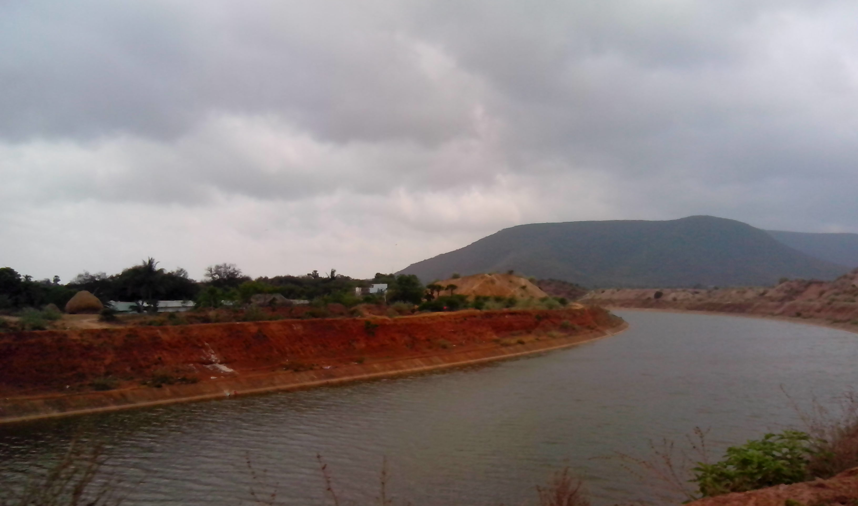 A Canal view near Talupulamma Lova, East Godavari